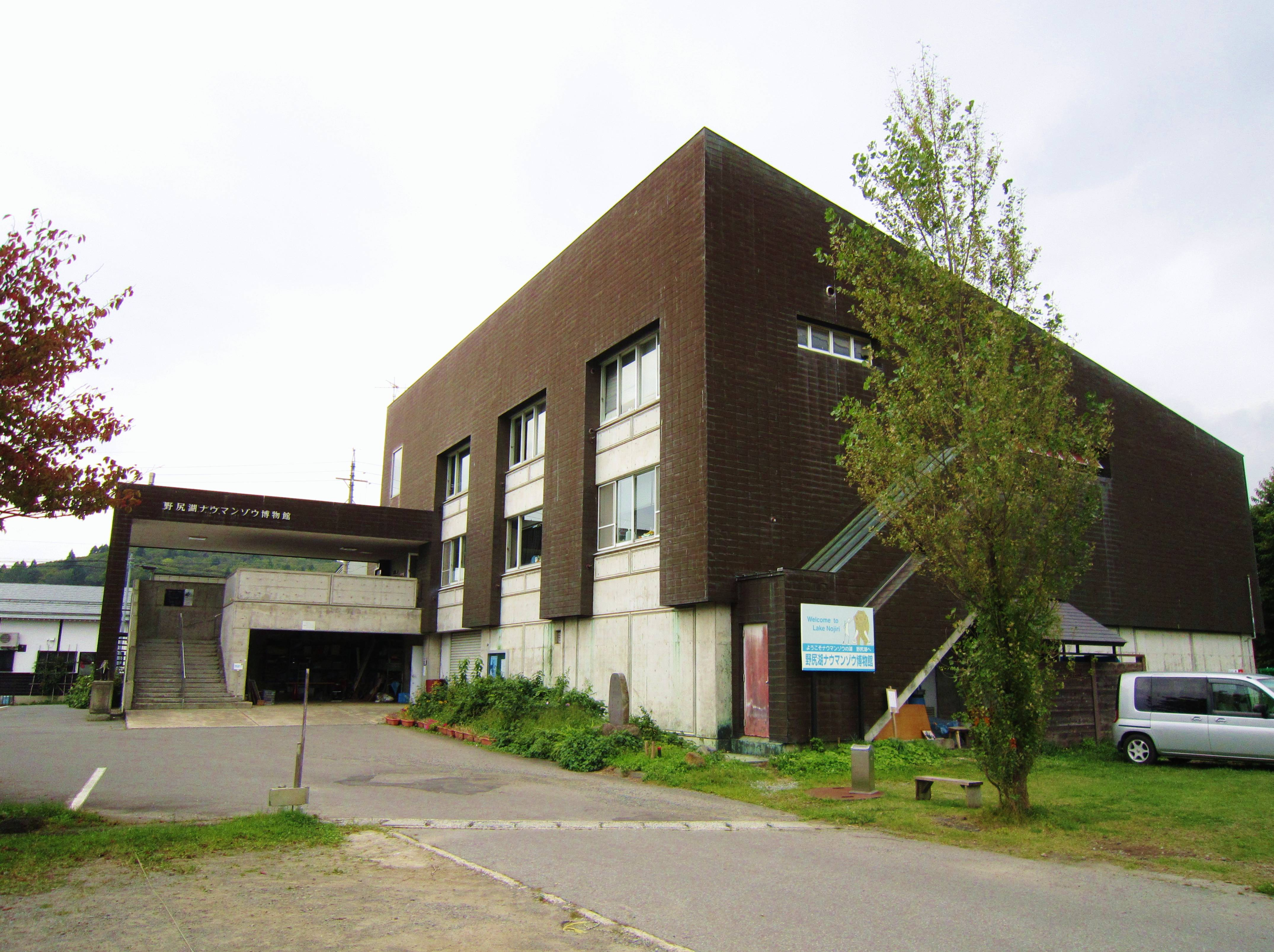 Nojiri-ko Museum.